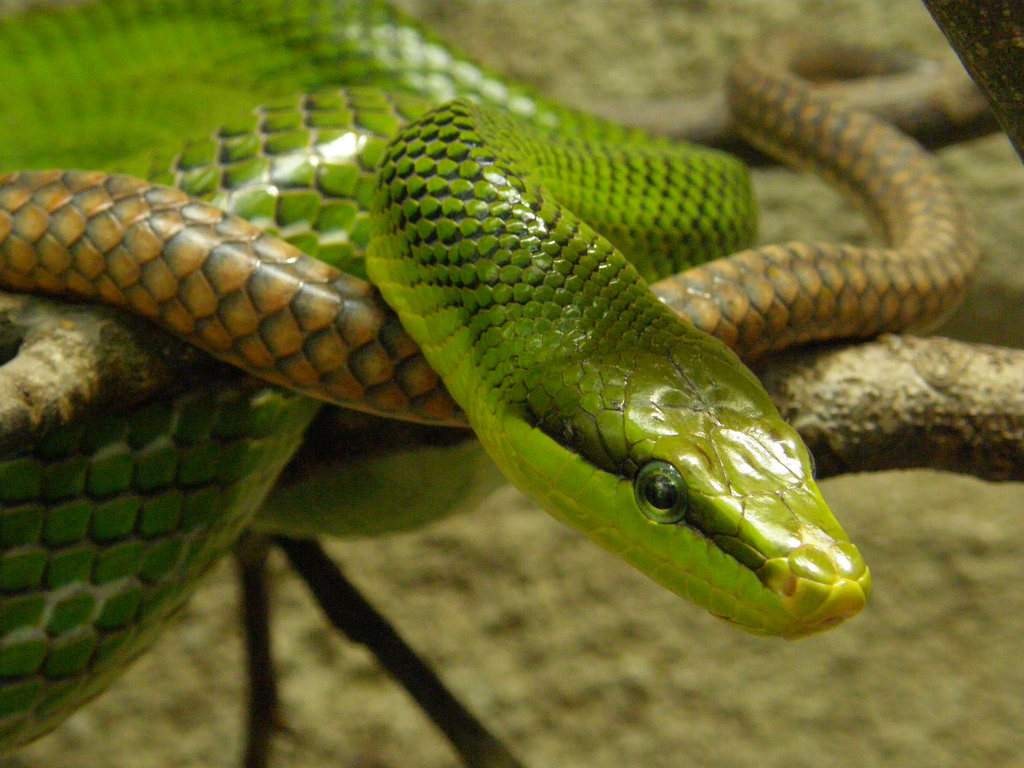 Elaphe oxycephala